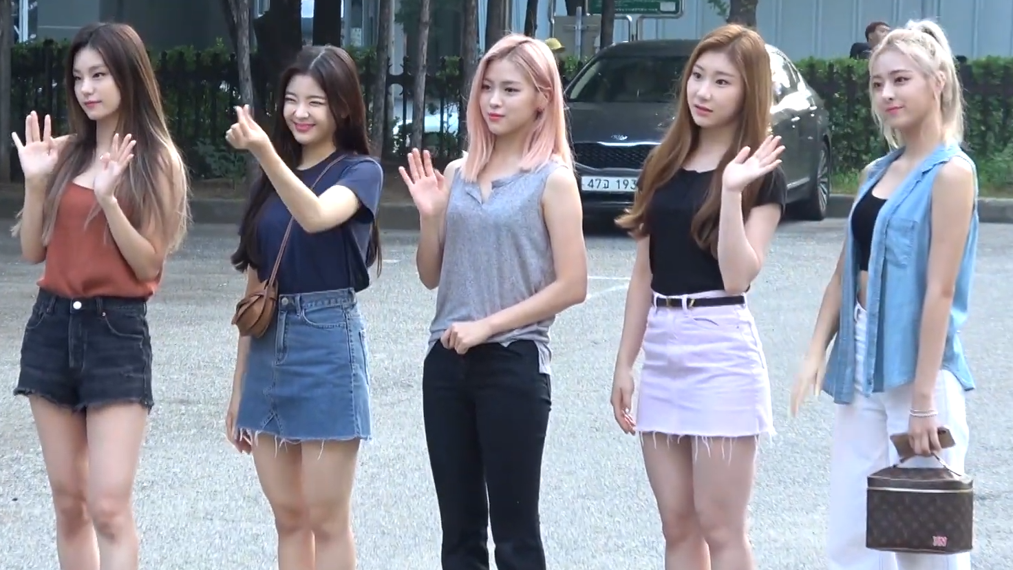 Itzy going to a Music Bank recording on August 8, 2019.